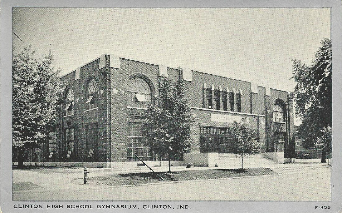 Exterior of the Clinton (Indiana) High School Gymnasium